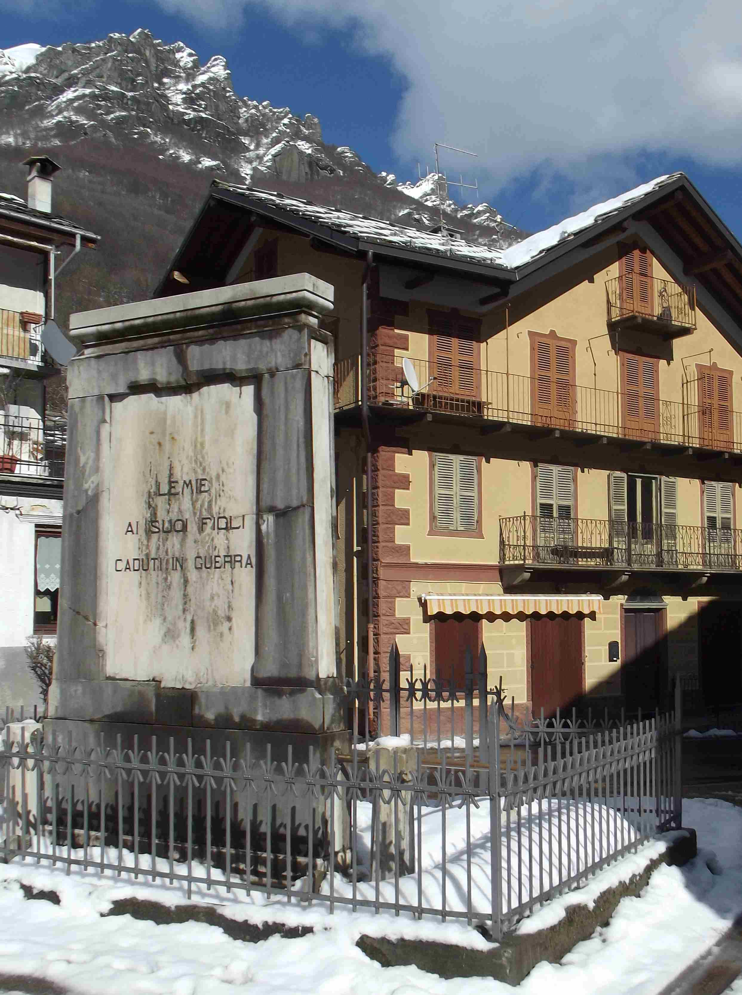 Lemie (TO, Italy): war memorial